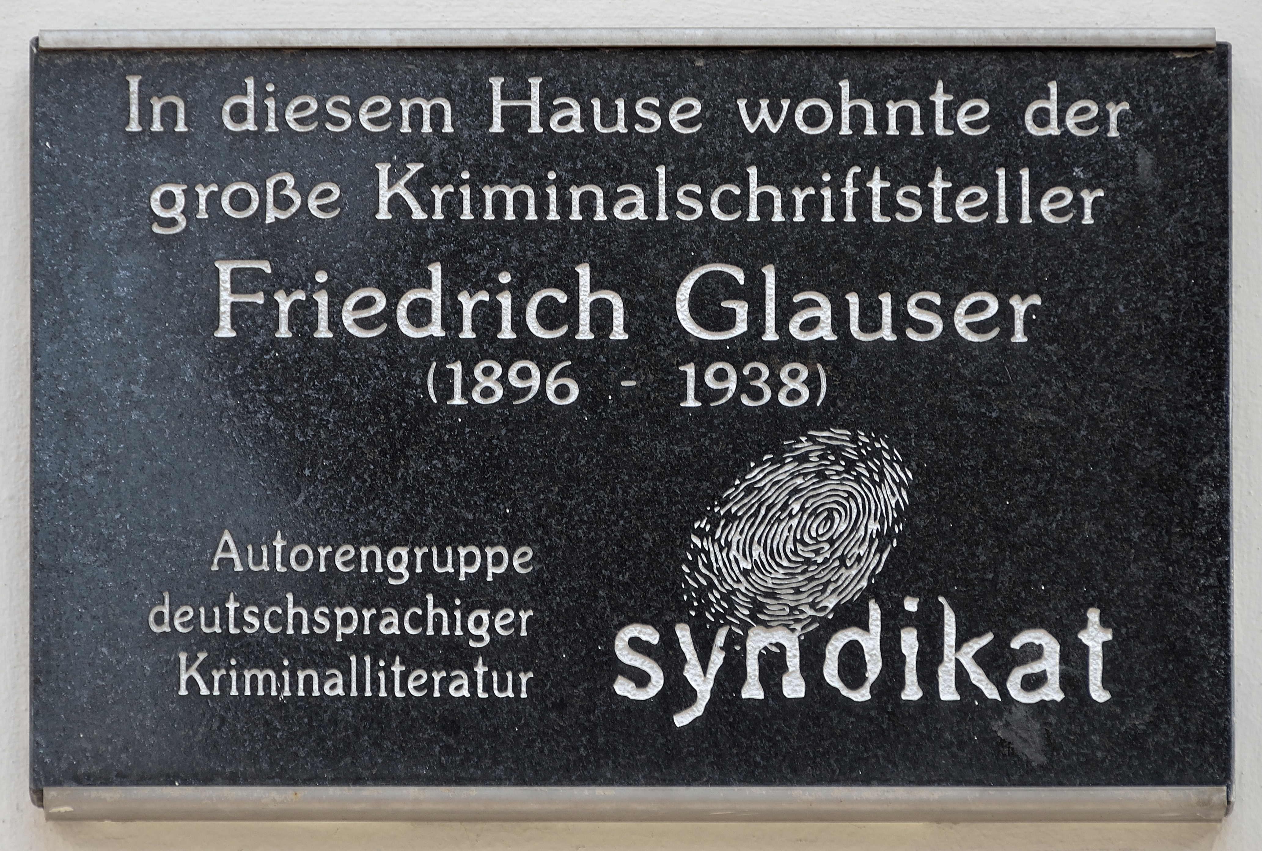 Plaque for Friedrich Glauser (1896-1938) at Schelleingasse 23, Wieden, Vienna.